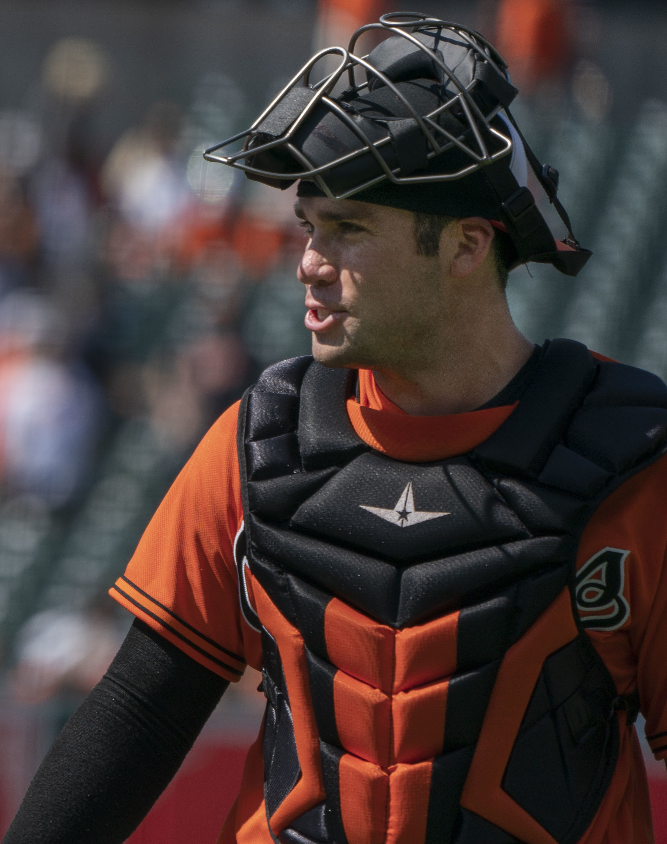 Alex Cobb (left) and Austin Wynns of the Baltimore Orioles at Camden Yards in Baltimore in 2018